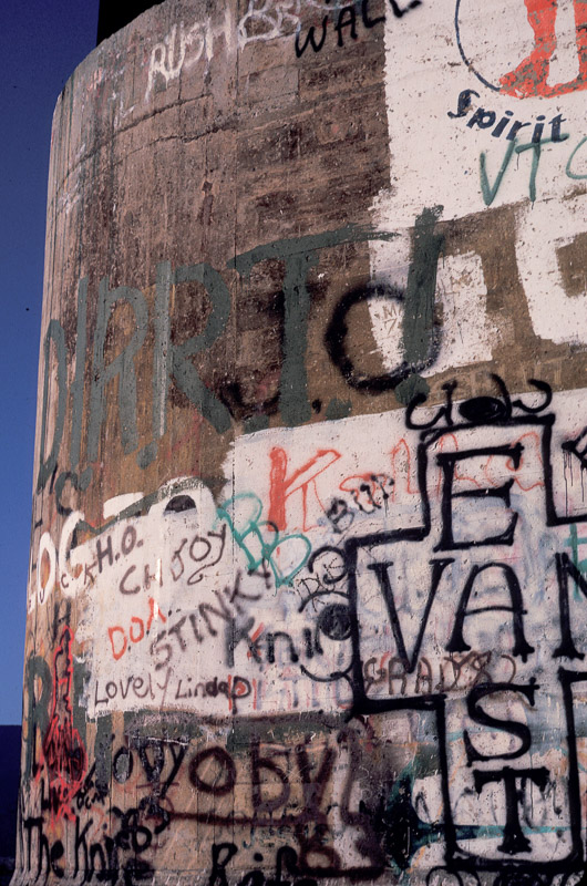 This graffiti was photographed on one of the WWII-vintage pillboxes on Vancouver’s Point Grey Foreshore. In the 21st century, the “East Van Cross” motif has become a common visual trademark.